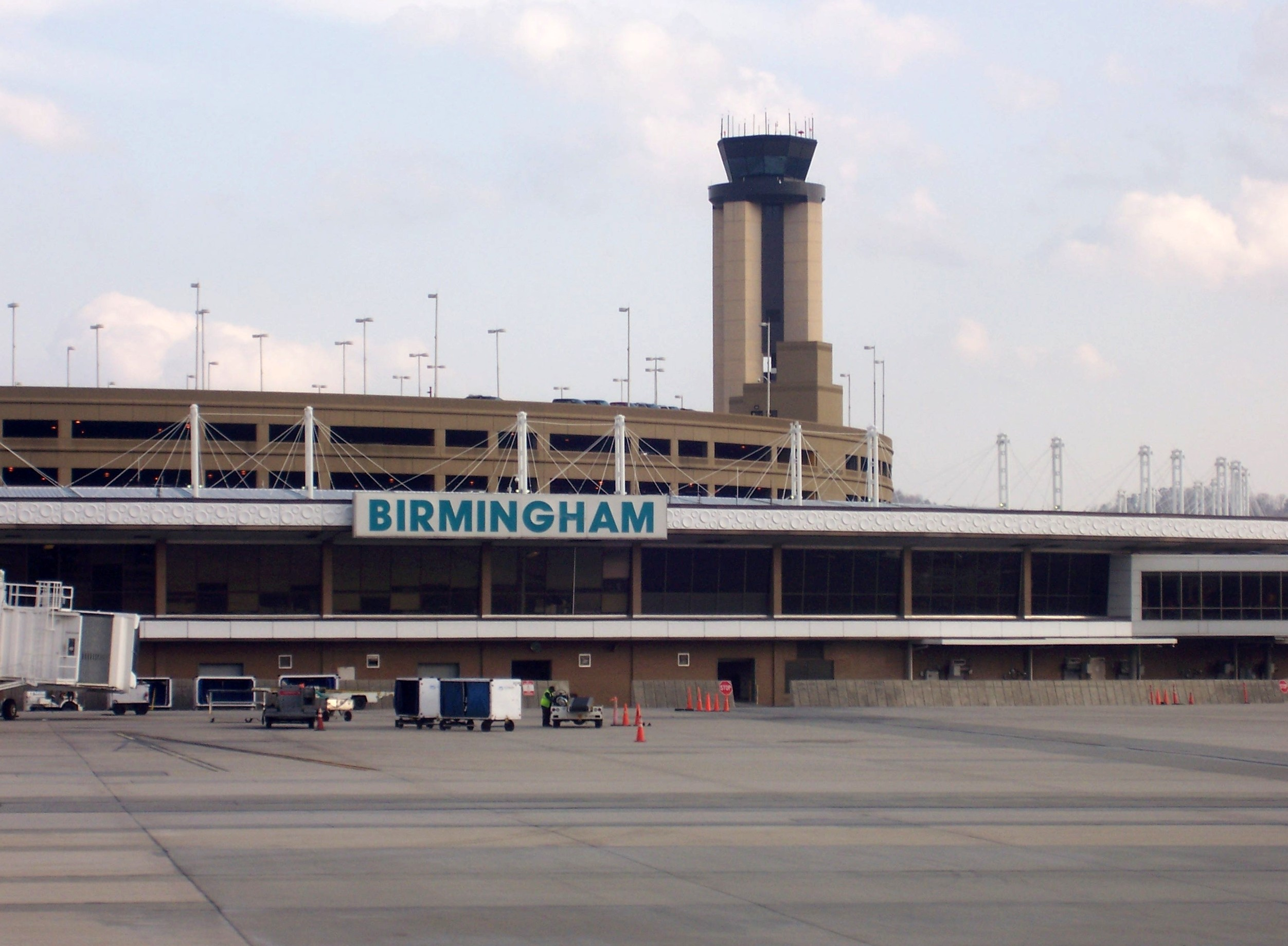 The Birmingham International Airport (U.S.) in Birmingham, Alabama, USA on 14 March 2008.